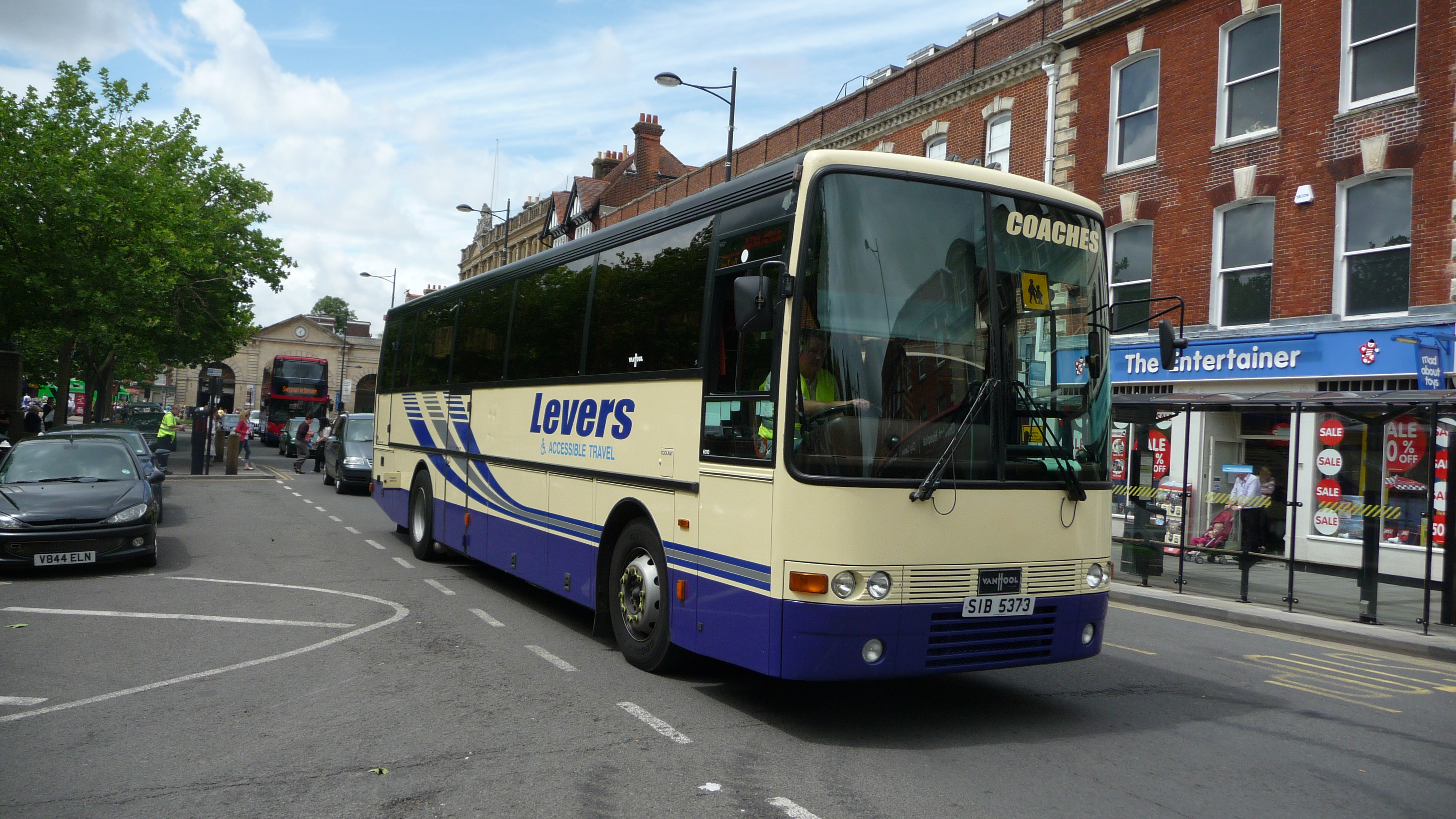 Levers Coaches 6010 (SIB 5373), a DAF MB230/Van Hool Alizée, in Blue Boar Row, Salisbury, Wiltshire. Levers Coaches is part of Tourist Group, itself the coaching division of bus company Wilts & Dorset. The coach's fleet number fits into the group numbering system. This coach wears the previous livery. All Tourist Group fleets now have a new livery, with the same base livery scheme and differing fleet names.